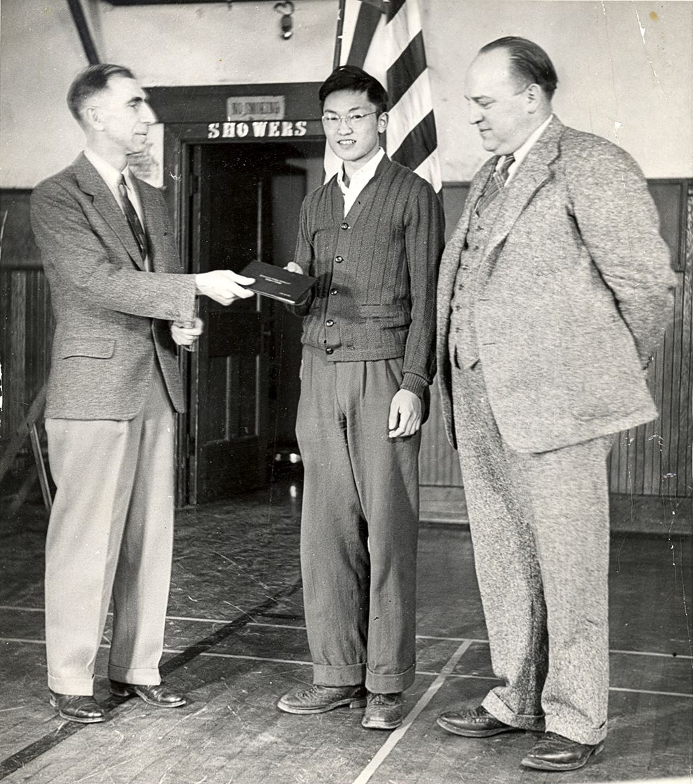 John Tanaka, Juneau High School valedictorian, receives his diploma at a special graduation ceremony in April of 1942. He was then taken, along with his family and other Juneau Japanese Americans, on an Army transport to Seattle for processing and then on to Minidoka Internment Camp in Idaho, where they were incarcerated during World War II. (Courtesy Tanaka family)